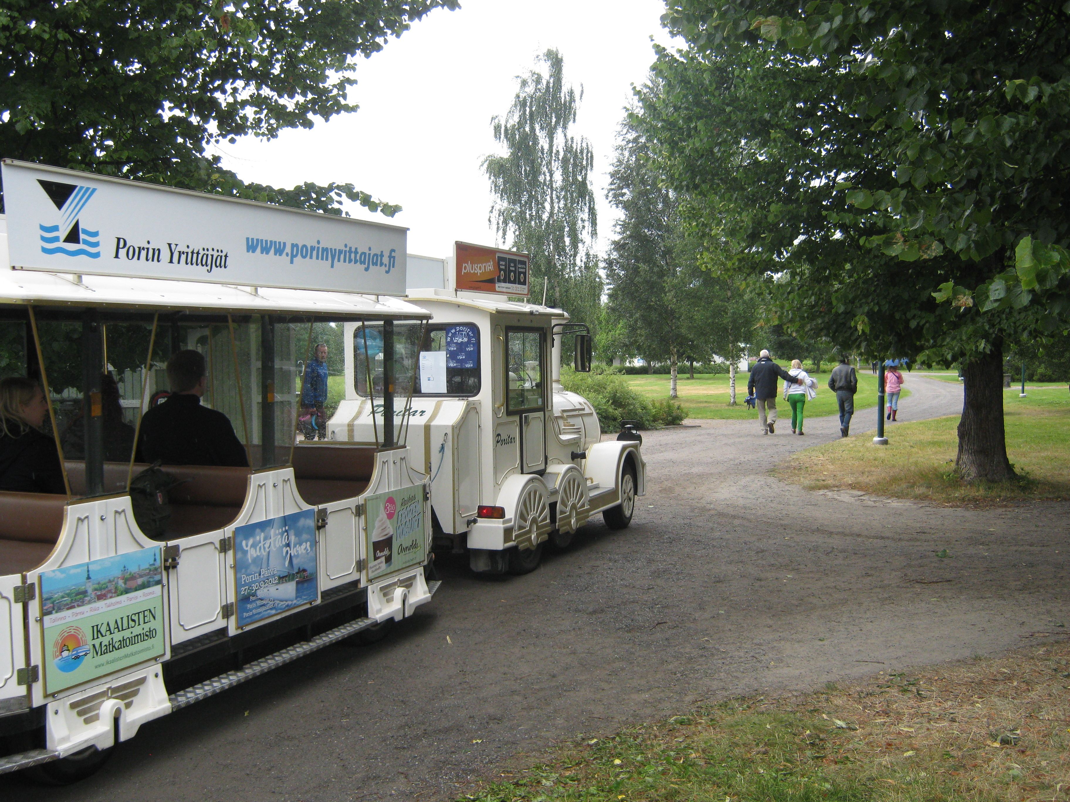 Trackless train "Poritar" at Kirjurinluoto park, Pori, Finland.